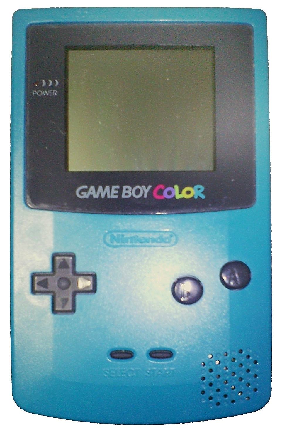 Game Boy Color